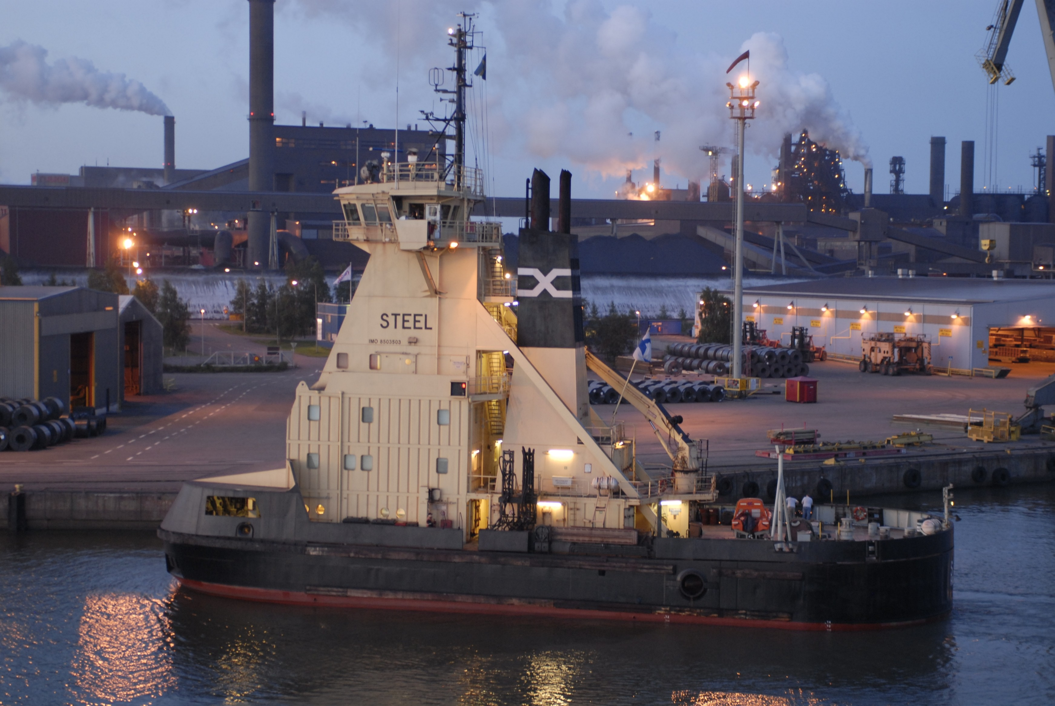 Pusher Steel (IMO 8503503) in the port of Raahe, Finland, on 19 July 2009.